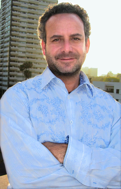 Jhillx01